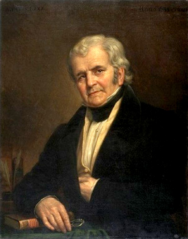 Portrait of Jean-Louis van Aelbroeck (1755-1846), Belgian agronomist, oil on canvas, 82,7 x 65,5 cm, Museum voor Schone Kunsten, Ghent